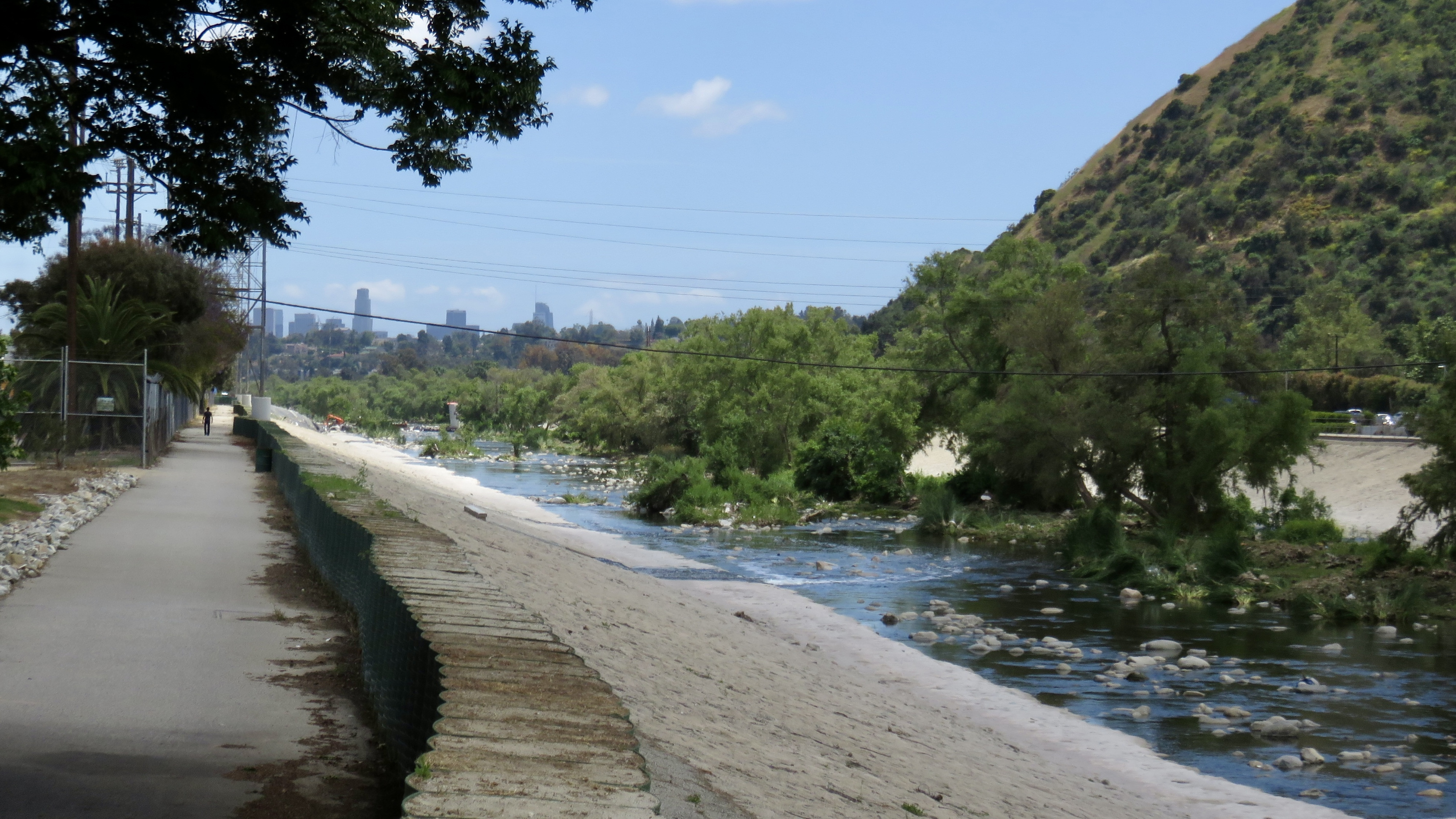 Glendale Narrows of the Los Angeles River looking towards downtown Los Angeles, California in 2019